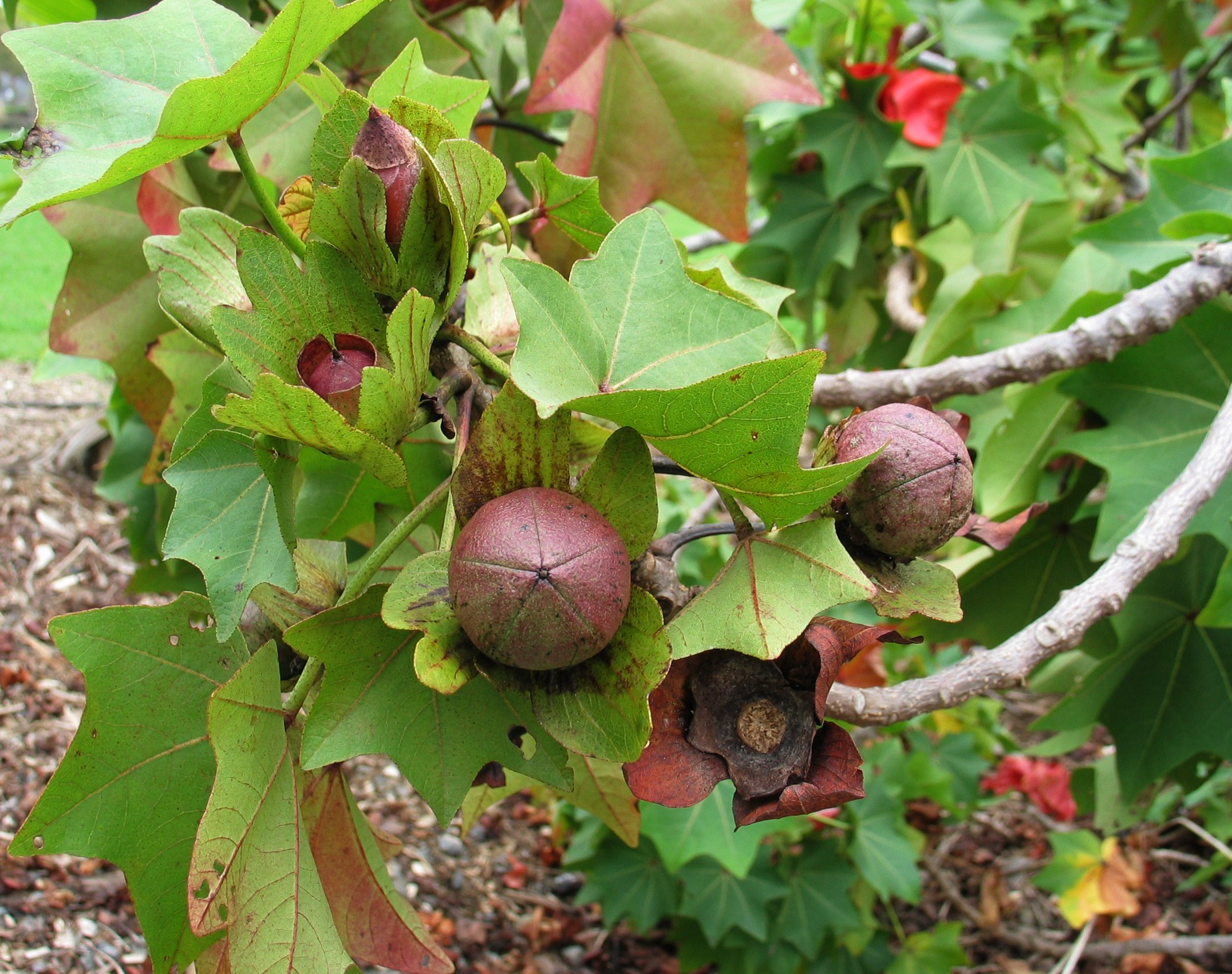 Kokiʻo, hau hele ʻula or Cooke's kokia Malvaceae Endemic to the Hawaiian Islands (Molokaʻi only; now extinct in the wild) Endangered Amy B.H. Greenwell Ethnobotanical Garden, Hawaiʻi Island (Cultivated)